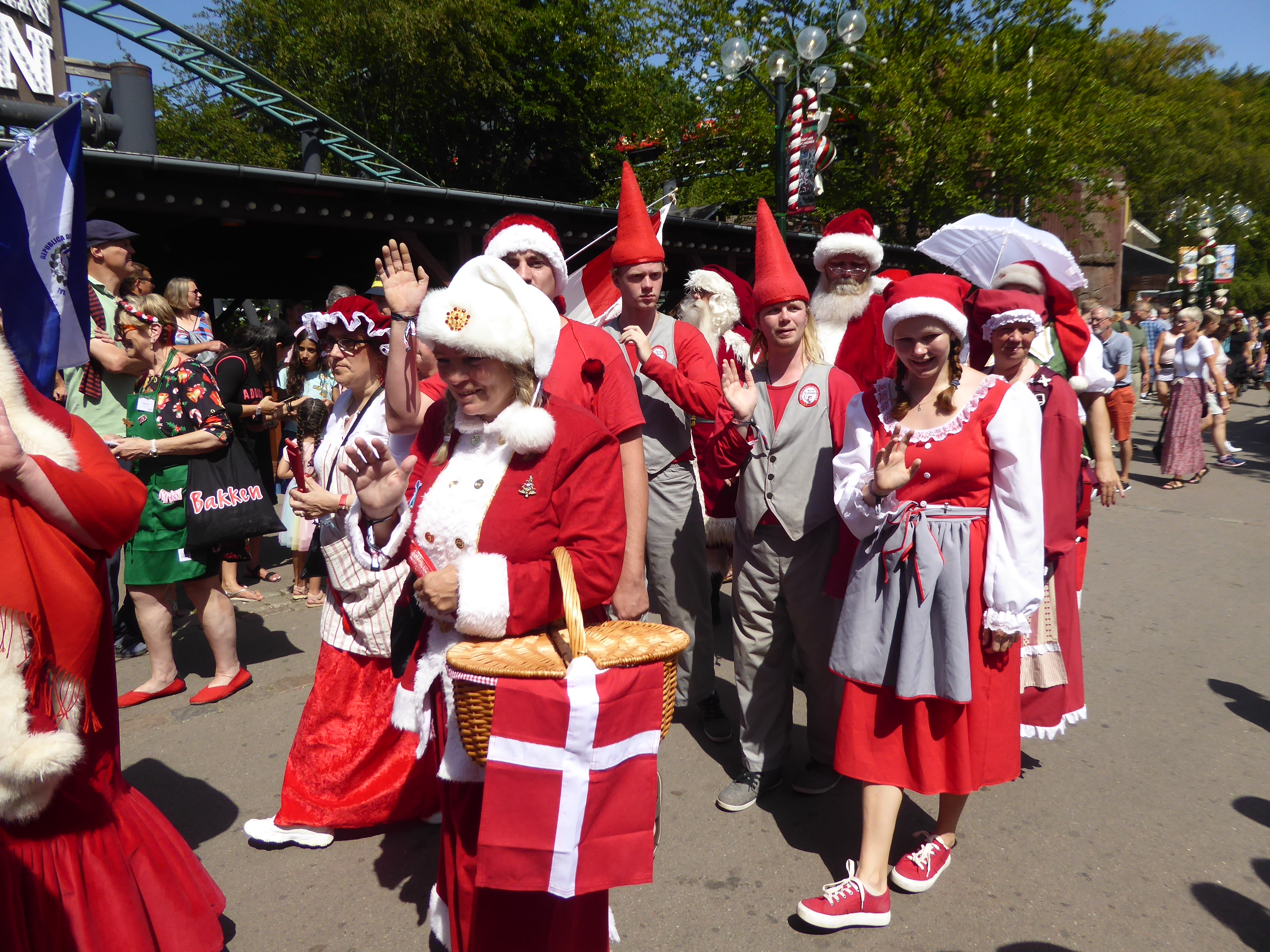 Parade at the annual World Santa Claus Congress in the amusement park Bakken north of Copenhagen.